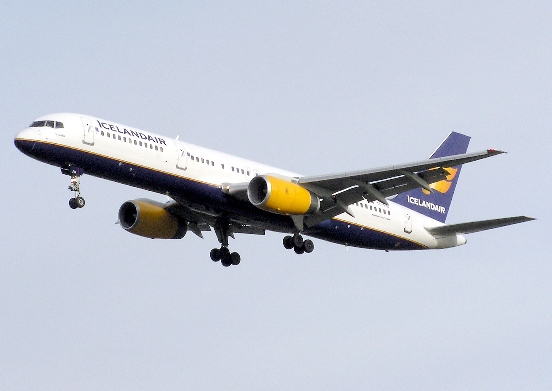 Icelandair Boeing 757-200 (TF-FIN), named "Bryndis", landing at London Heathrow Airport, England. Photographed by Adrian Pingstone in November 2005 and released to the public domain.